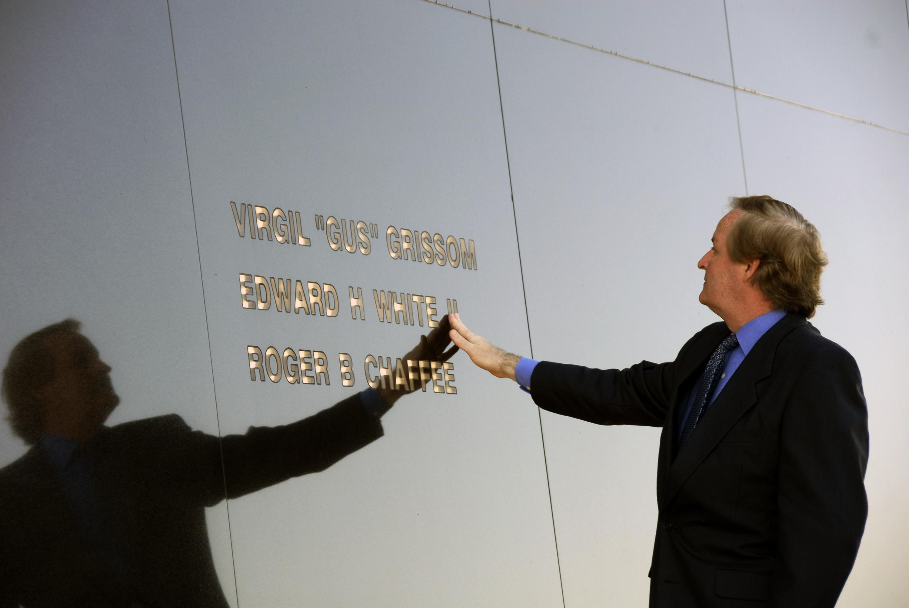 KENNEDY SPACE CENTER, FLA. -- Ed White III touches his father's name engraved in the Space Mirror Memorial at the KSC Visitor Complex. White attended the ceremony held in remembrance of the astronauts lost in the Apollo 1 fire: Virgil "Gus" Grissom, Edward H. White II and Roger B. Chaffee. Members of their families, along with KSC Director Bill Parsons, Associate Administrator for Space Operations William Gerstenmaier, President of the Astronauts Memorial Foundation Stephen Feldman and Chairman of the Board of Directors of the Astronauts Memorial Foundation William Potter, attended the ceremony. The mirror was designated as a national memorial by Congress and President George Bush in 1991 to honor fallen astronauts. Their names are emblazoned on the monument’s 42-½-foot-high by 50-foot-wide black granite surface as if to be projected into the heavens. Photo credit:NASA/Kim Shiflett